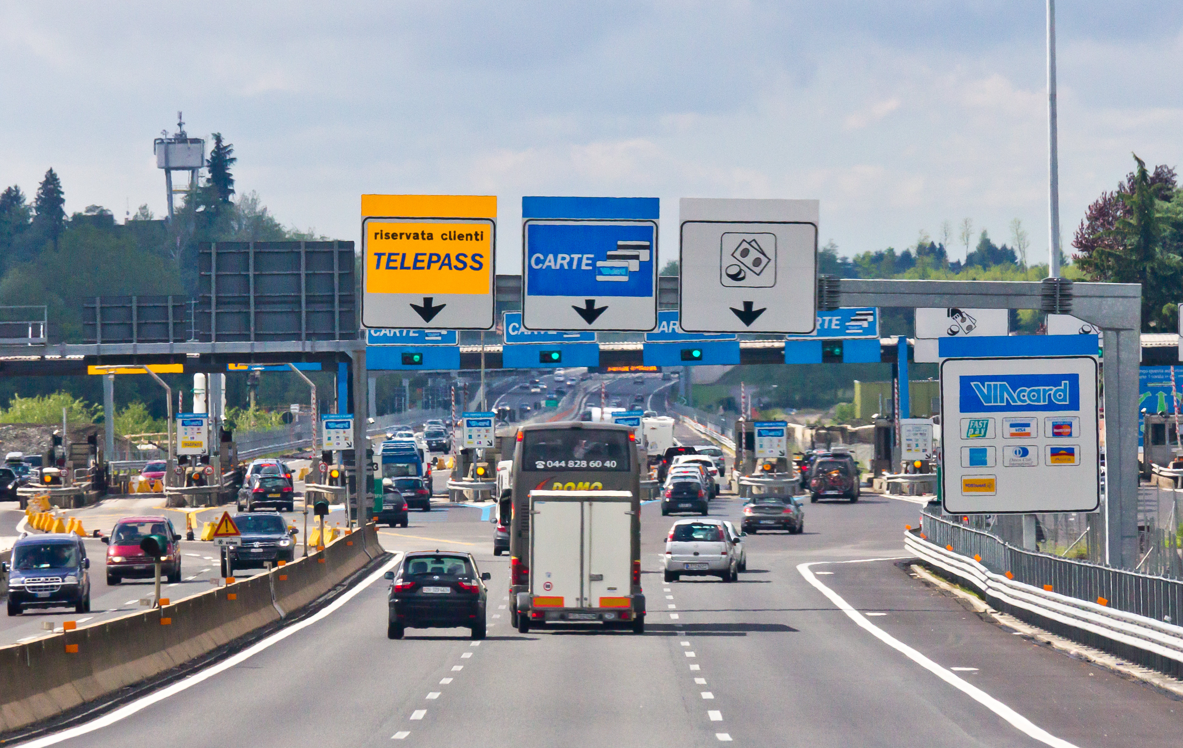 Highway A9, toll station Como Grandate, Italy. Driving direction south